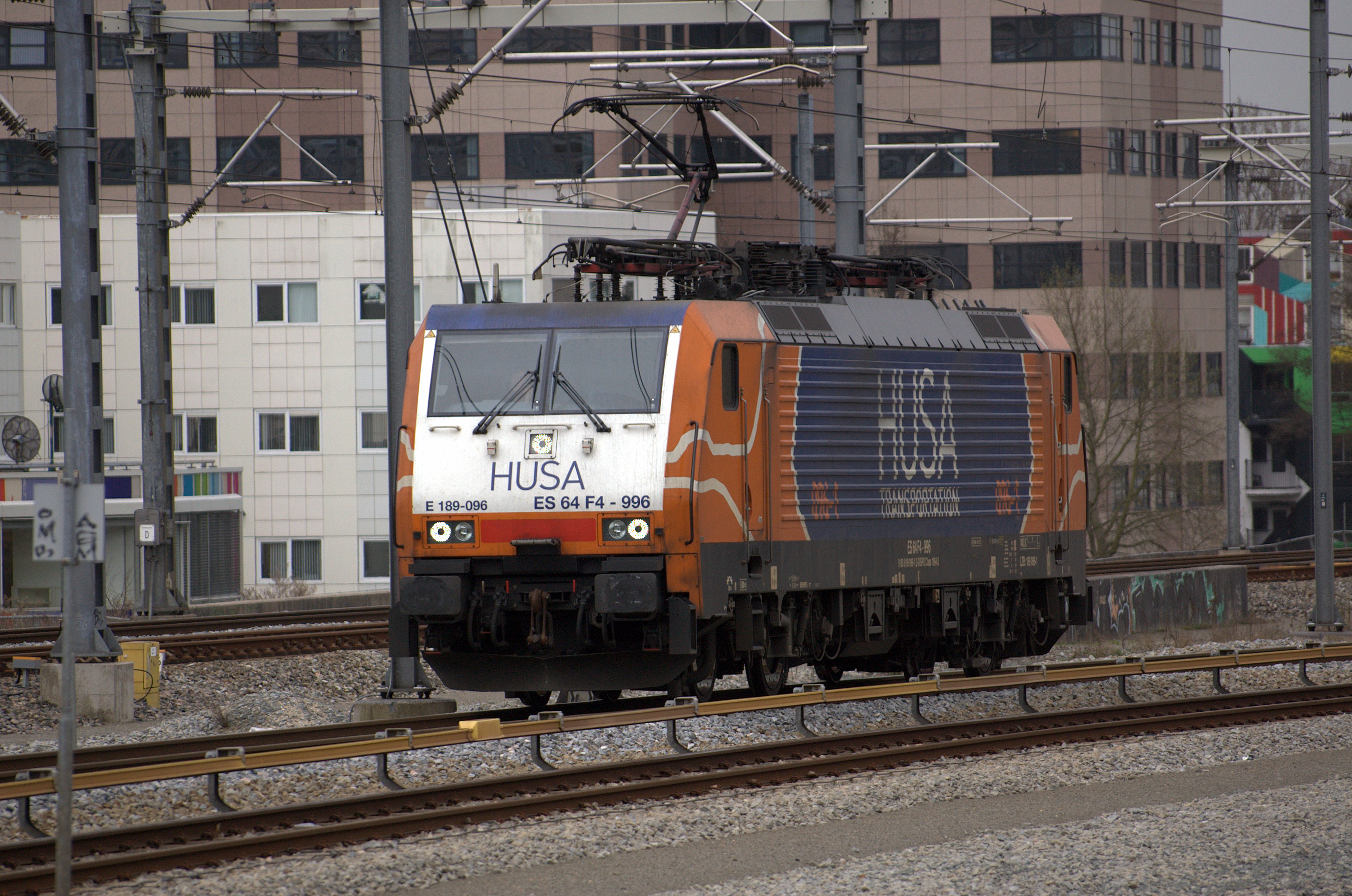 The electric locomotive MRCE E 189.096, Husa Transportation Railway Service rented, in Amsterdam Bijlmer ArenA railway station.